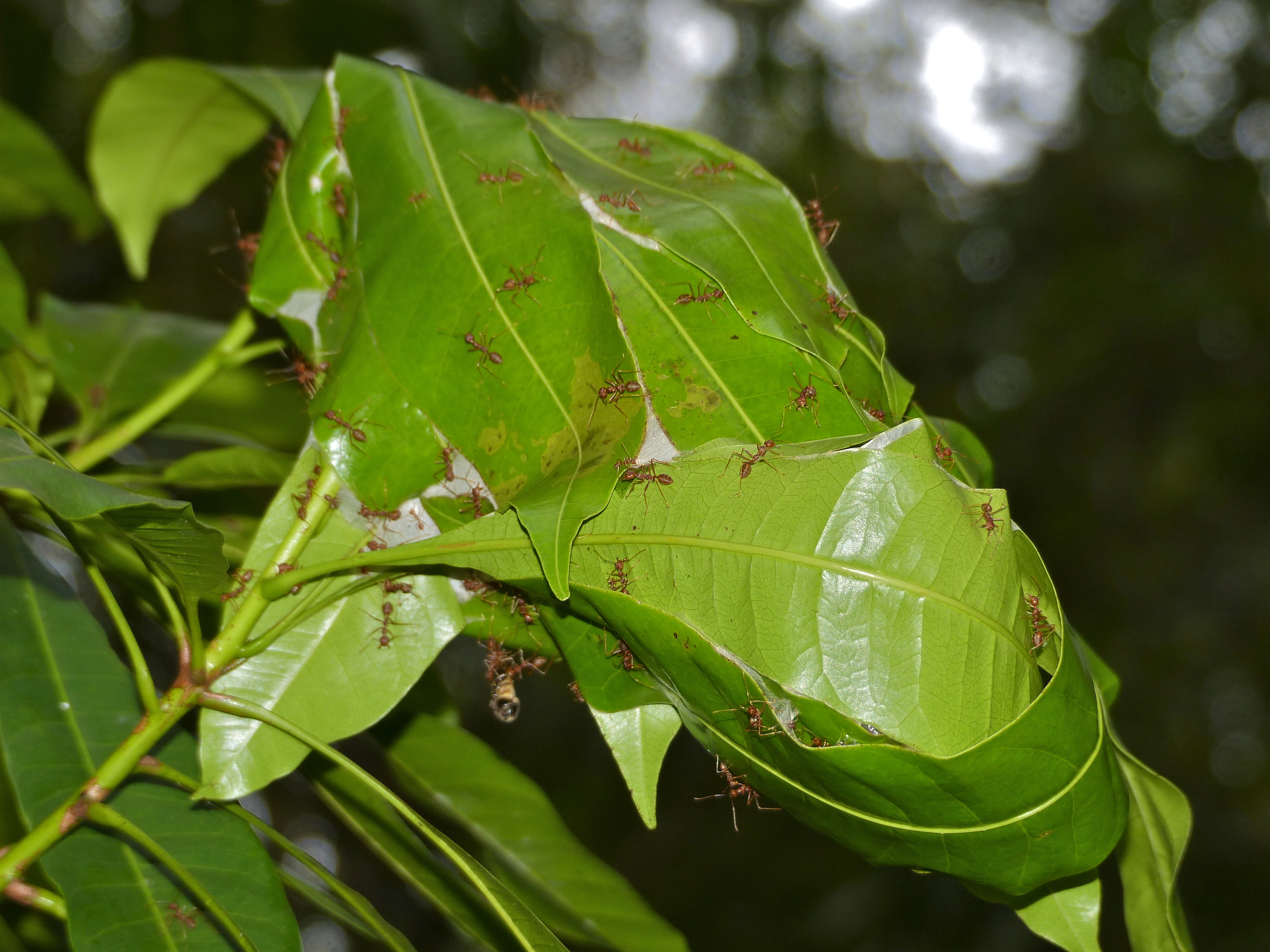 Permai Rainforest Resort, Santubong Peninsula North of Kuching, Sarawak, MALAYSIA